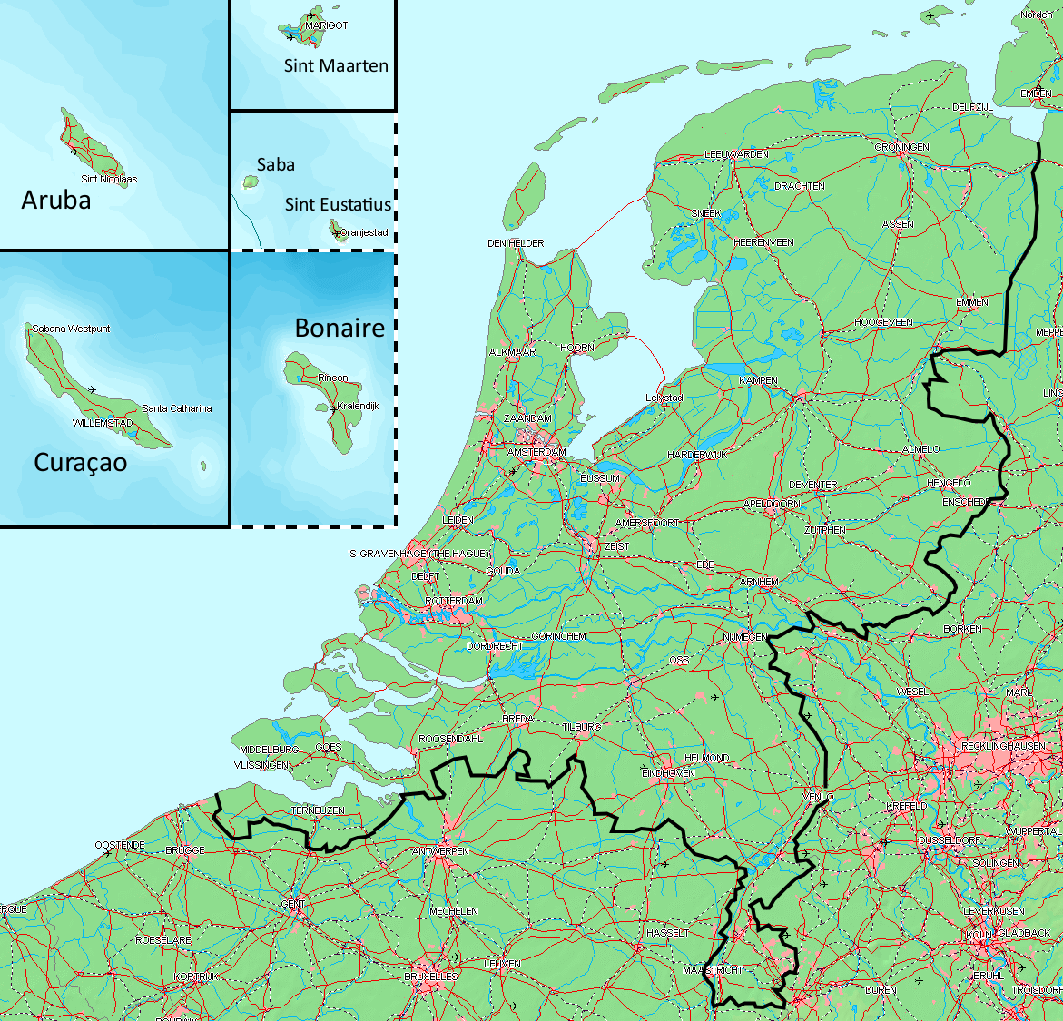 Map of the Kingdom of the Netherlands. The mainland and all the islands are on the same scale.